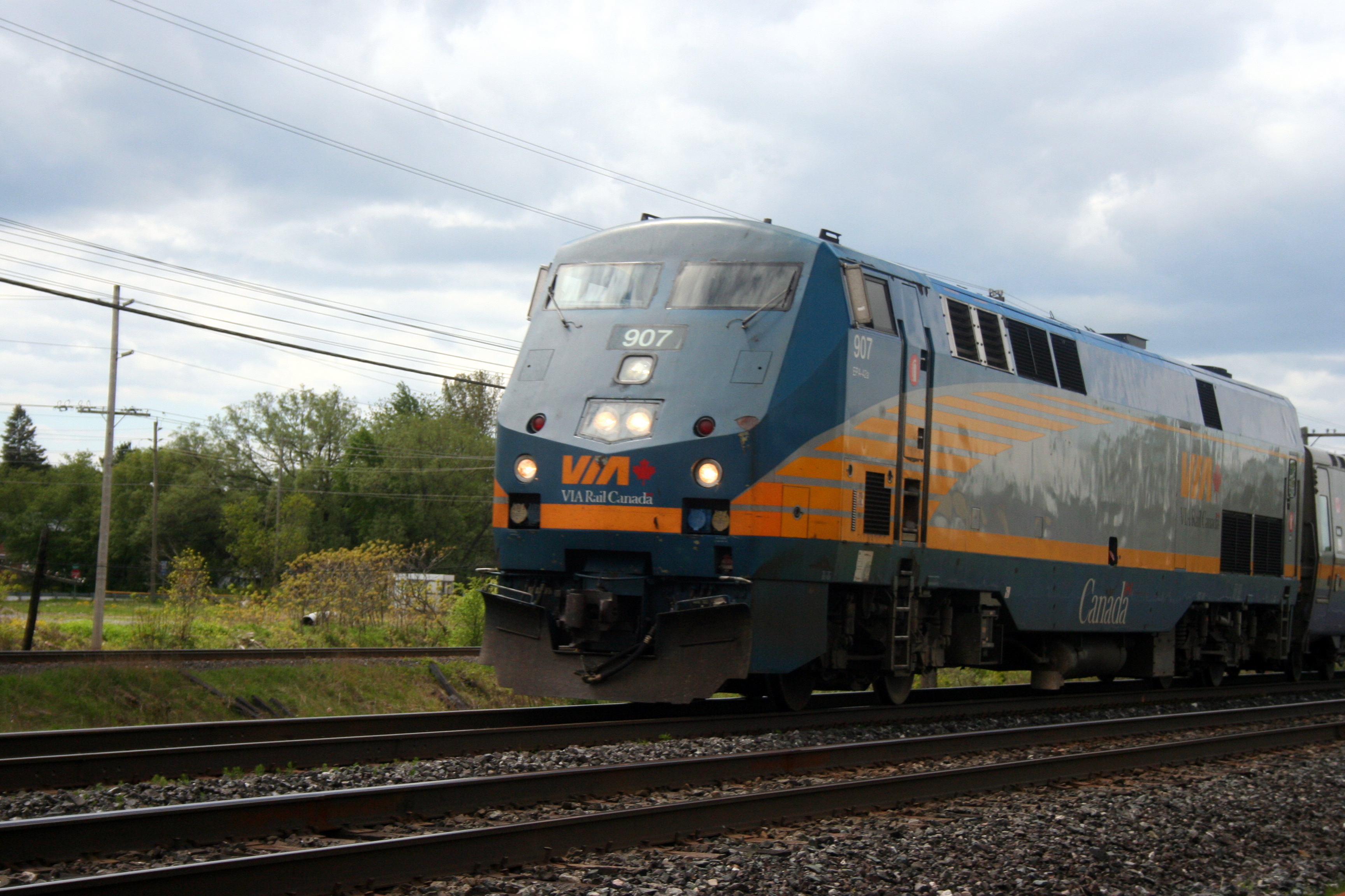 Via Rail Train 44 from Toronto, bound for Ottawa, speeds through Brighton, Ontario